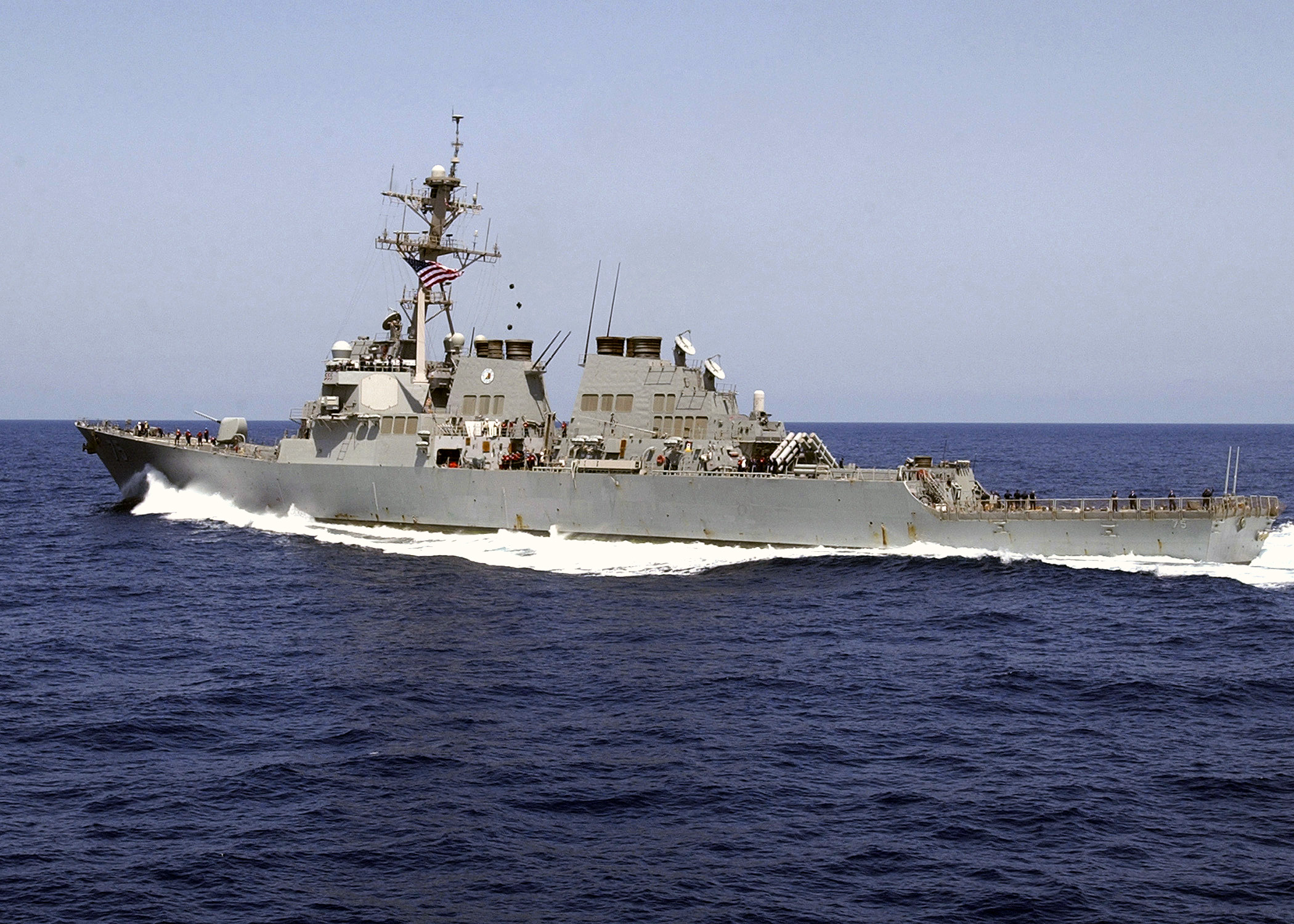 030420-N-6141B-009. Central Command Area of Responsibility April 20 2003, the guided missile destroyer USS Donald Cook (DDG 75) conducts a high-speed maneuver after an underway replenishment with the Military Sealift Command fleet oiler USNS Kanawha (T-AO 196). Donald Cook is one of the many warships in the Central Command's area of responsibility, supporting Operation Iraqi Freedom. Operation Iraqi Freedom is the multi-national coalition effort to liberate the Iraqi people, eliminate Iraq's weapons of mass destruction and end the regime of Saddam Hussein. U.S. Navy photo by Chief Journalist Mate Alan J. Baribeau.